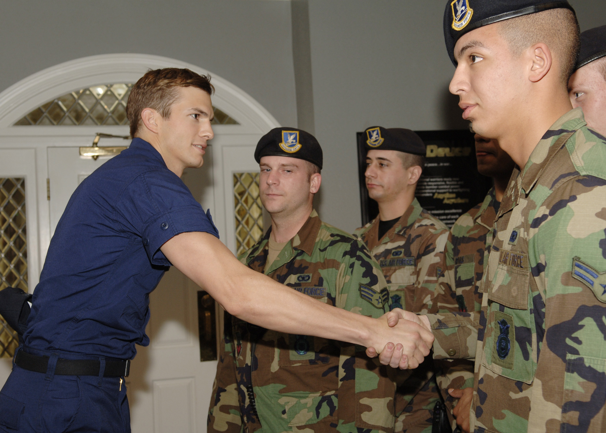 Ashton Kutcher greets 2nd Security Forces Squadron Airmen. The Airmen provided security support on the set of "The Guardian" while it filmed on base.